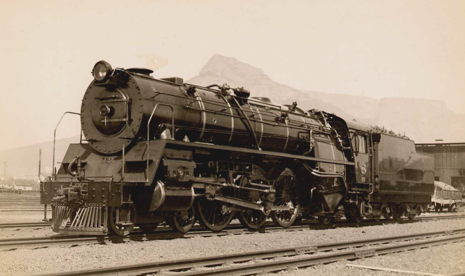 SAR Class 16E 854 (4-6-2) Location: Salt River, Cape Town